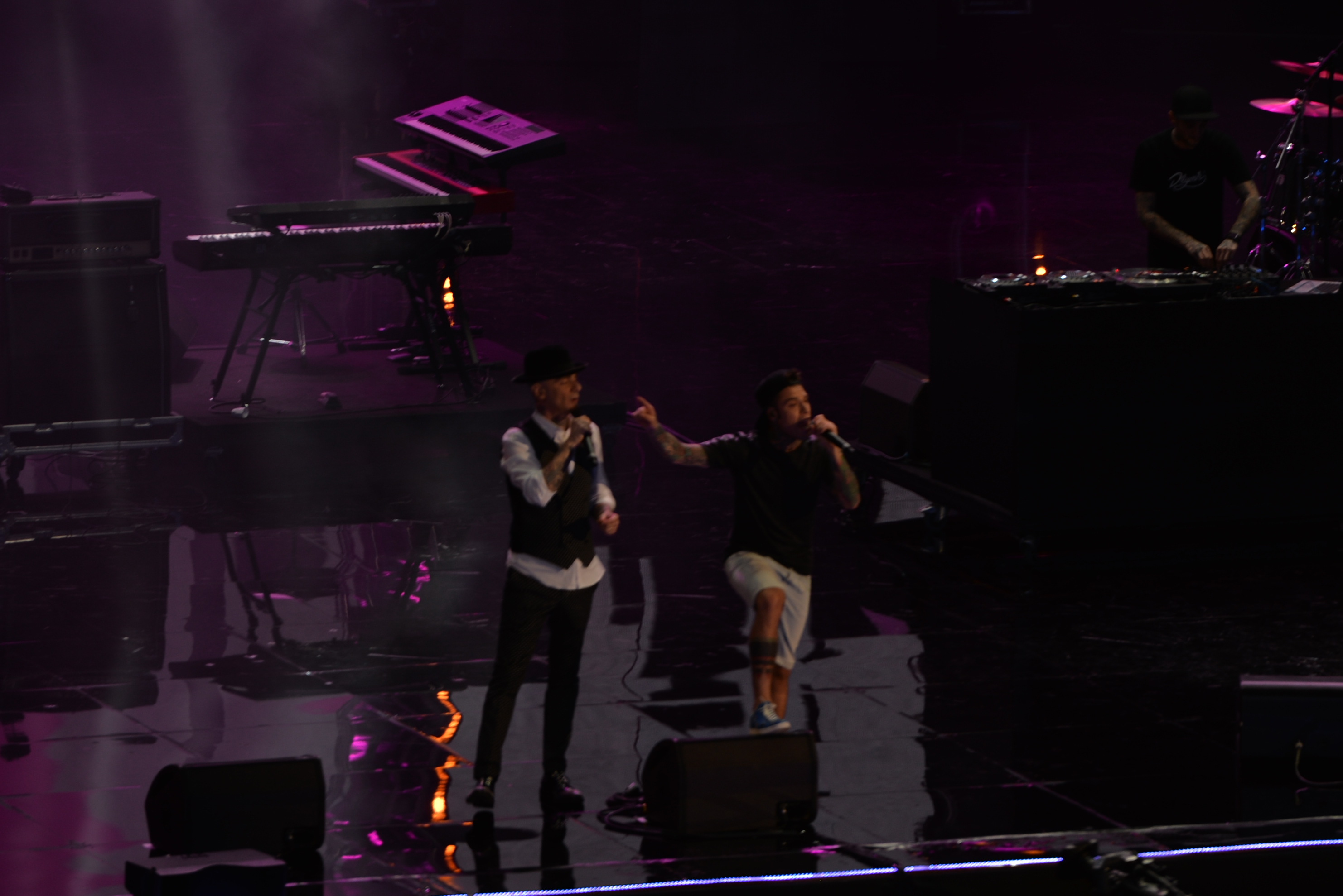 J-Ax & Fedez during the 2016 Wind Music Awards ceremony at Verona Arena